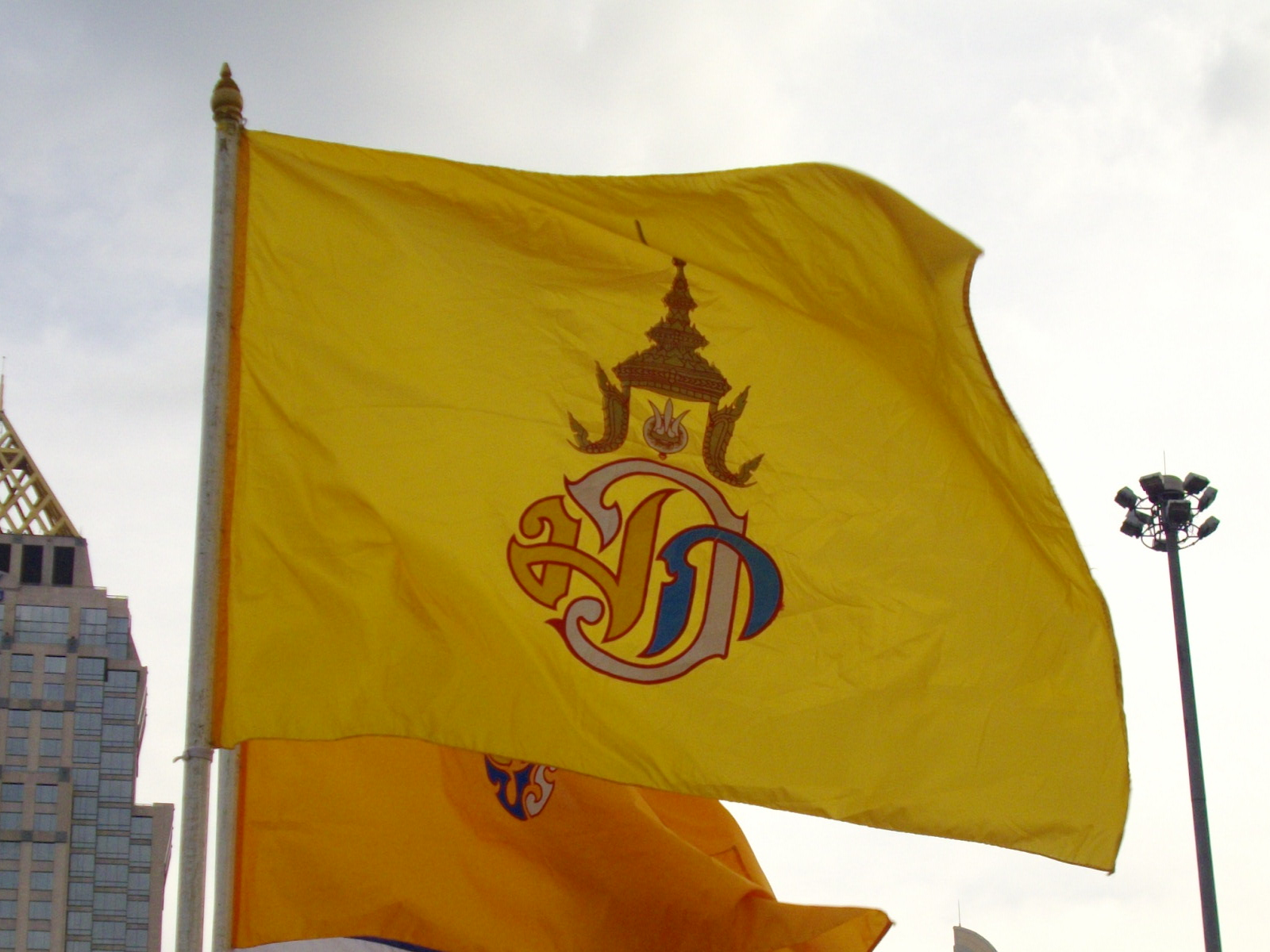 Royal Flag of Maha Vajiralongkorn, Crown Prince of Thailand.